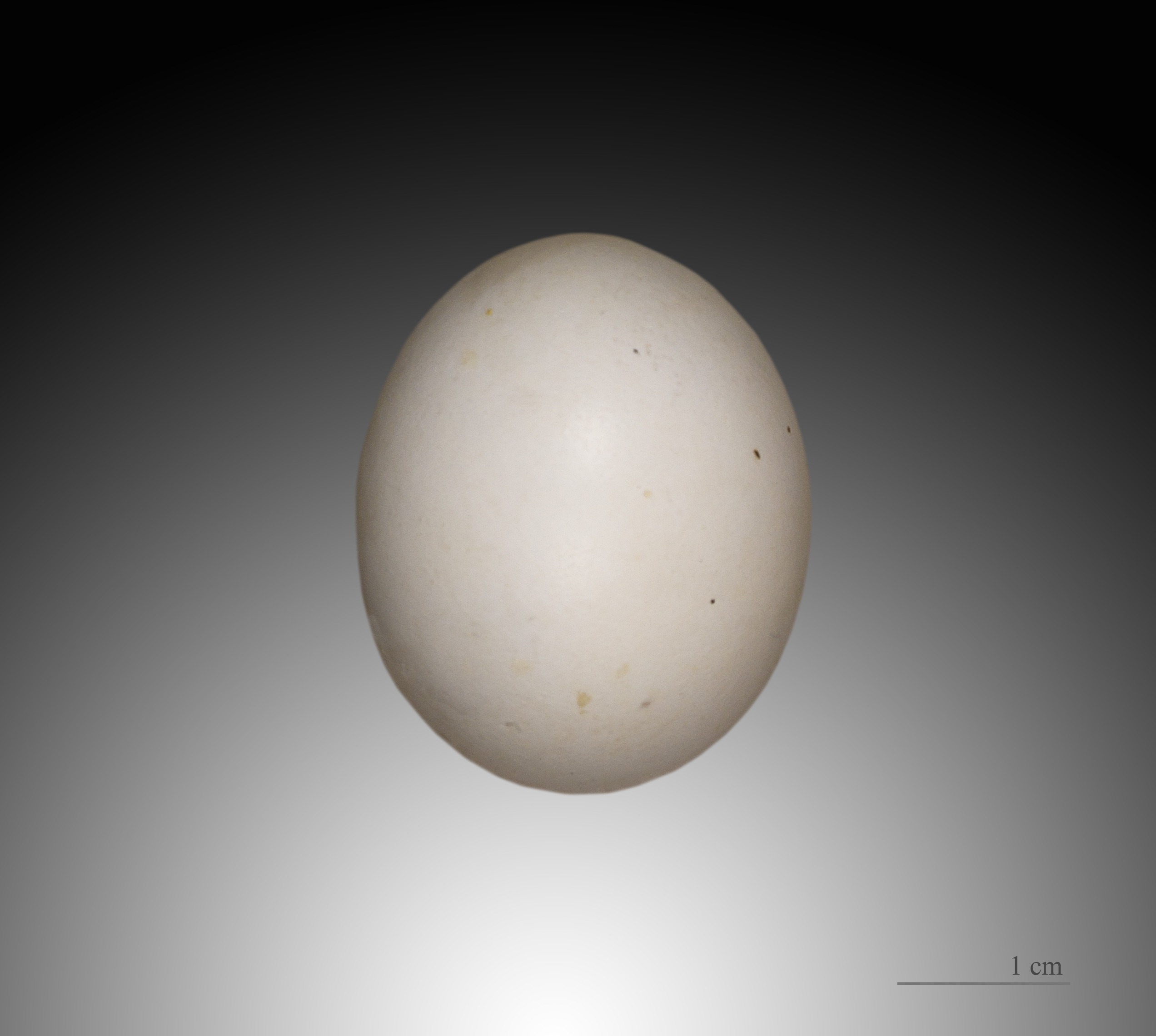 Egg of Malagasy Turtle Dove. Collection of Jacques Perrin de Brichambaut. Locality : Sambirano, Madagascar.